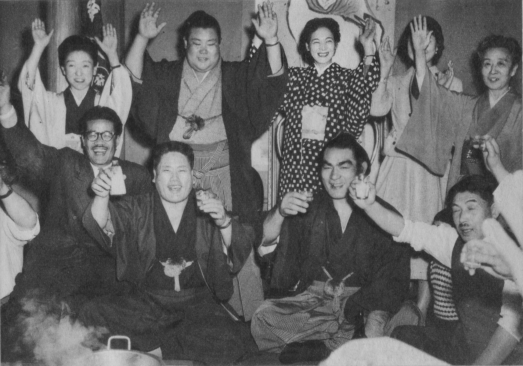 Celebrate with related parties, Asashio Tarō III (Winner of Haru basho, Osaka, 1956) and Takasago Uragorō V (Maedayama Eigorō).